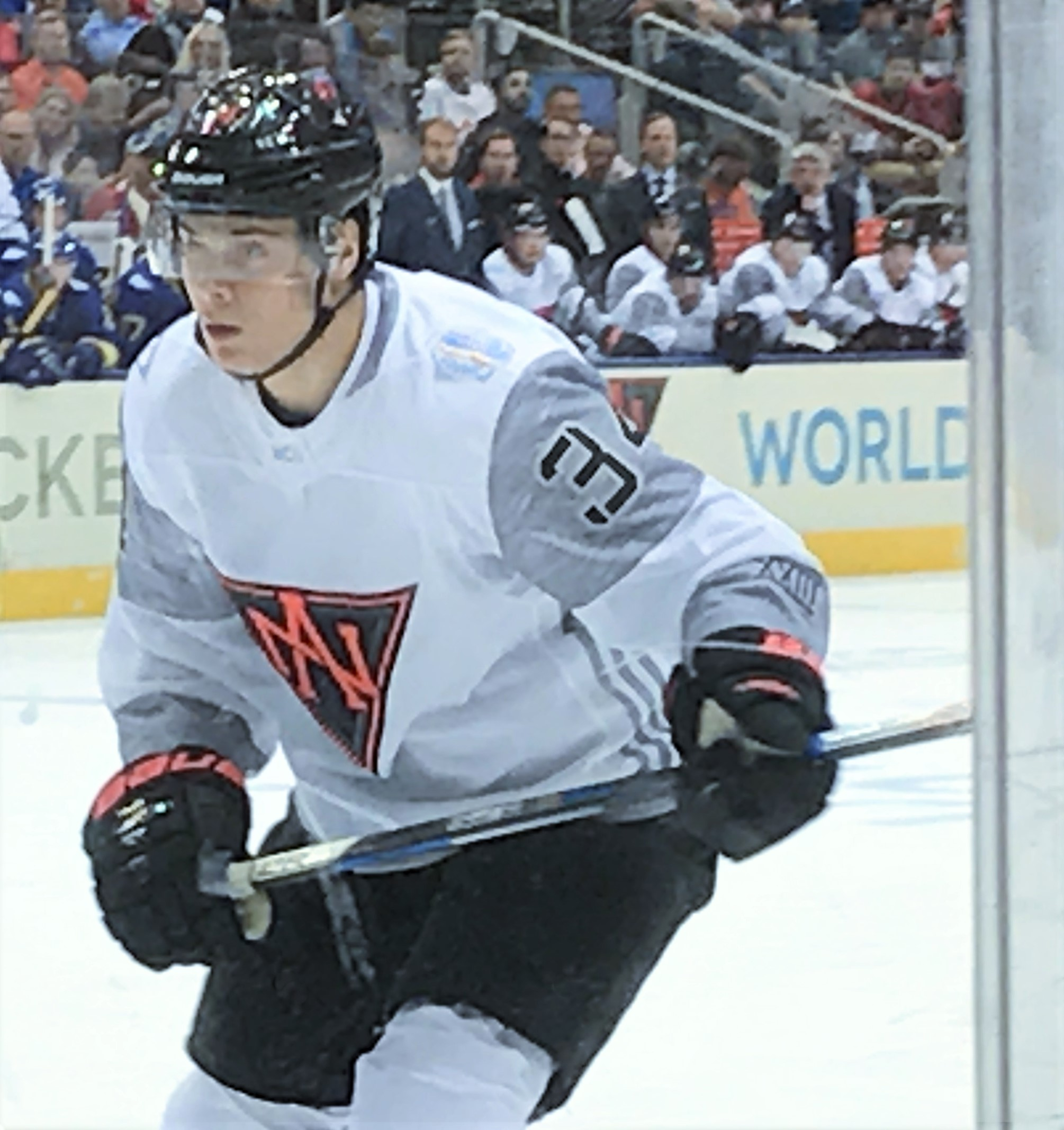 Auston Matthews at the World Cup of Hockey